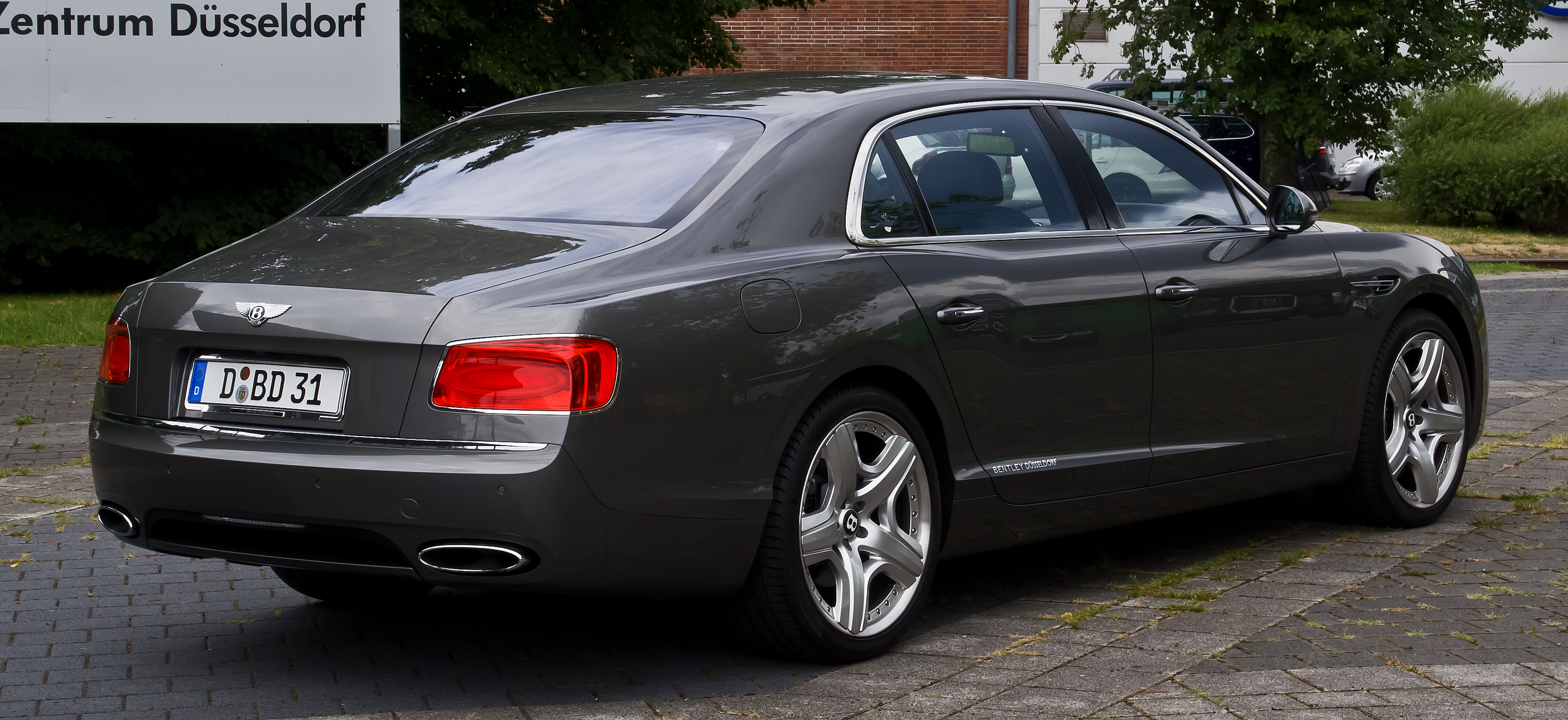 Bentley Flying Spur